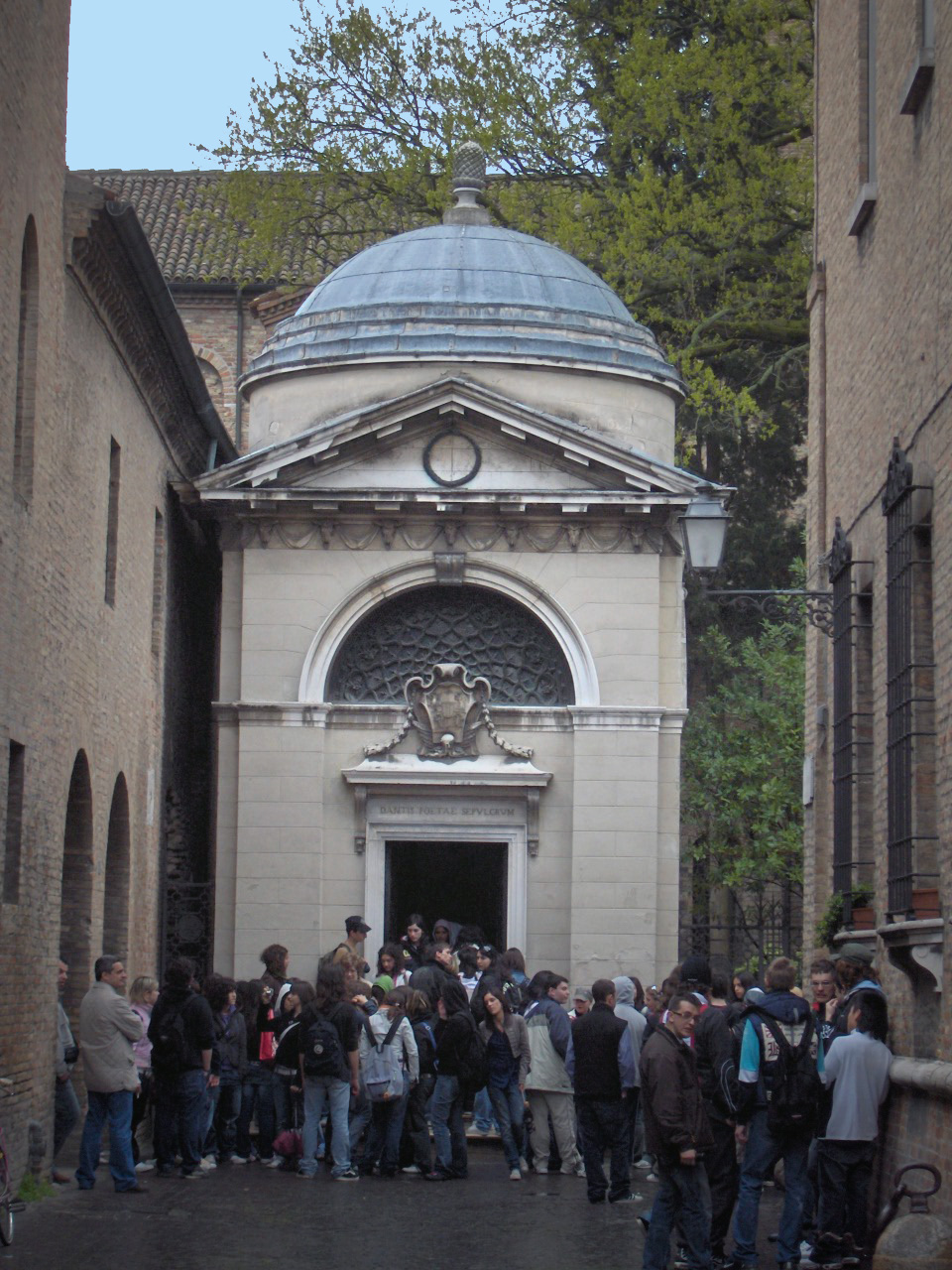 Dante Alighieri's tomb (1780), Ravenna, Italy